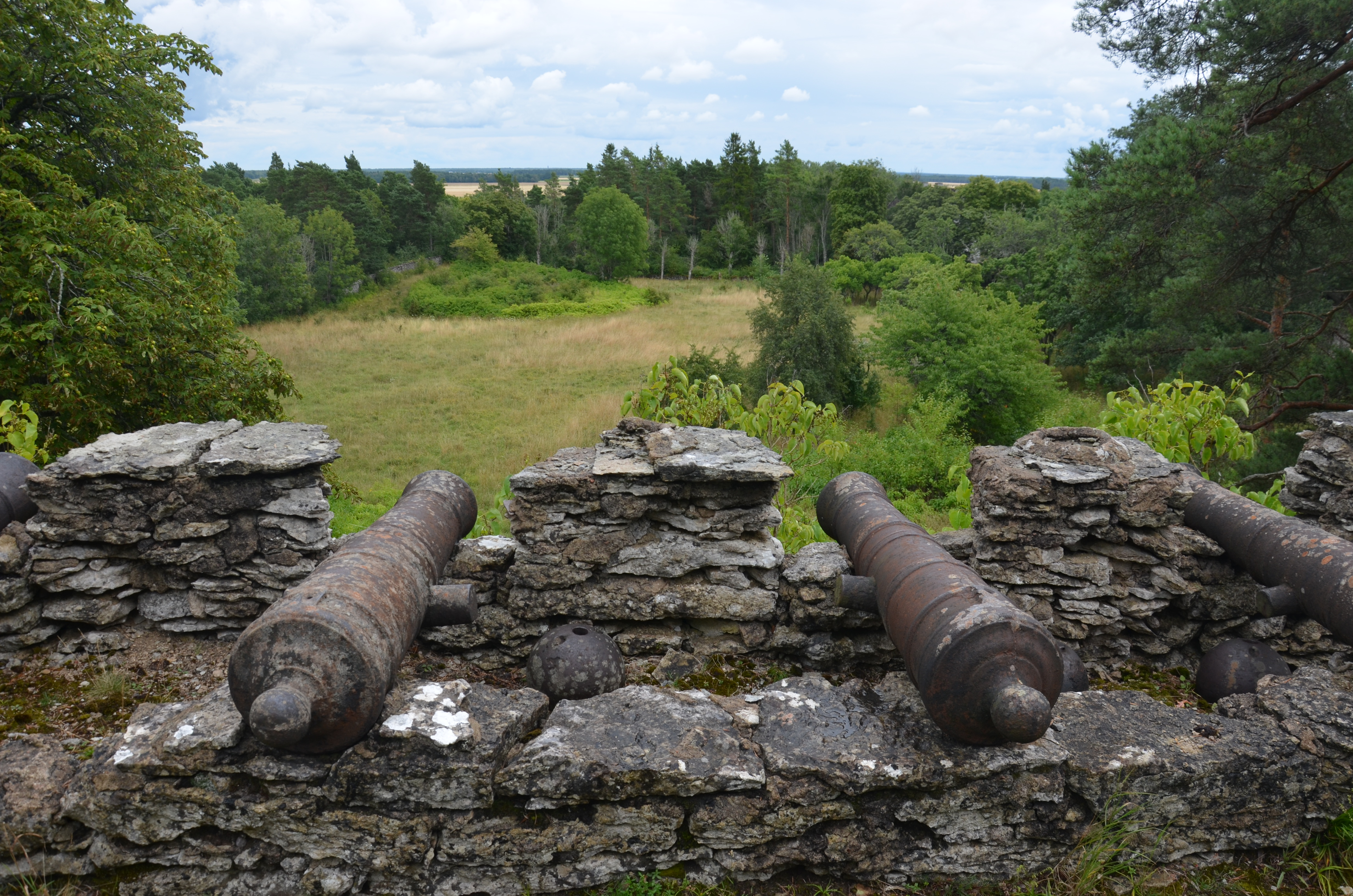 Jacobsberg, Follingbo, Gotland, Sweden